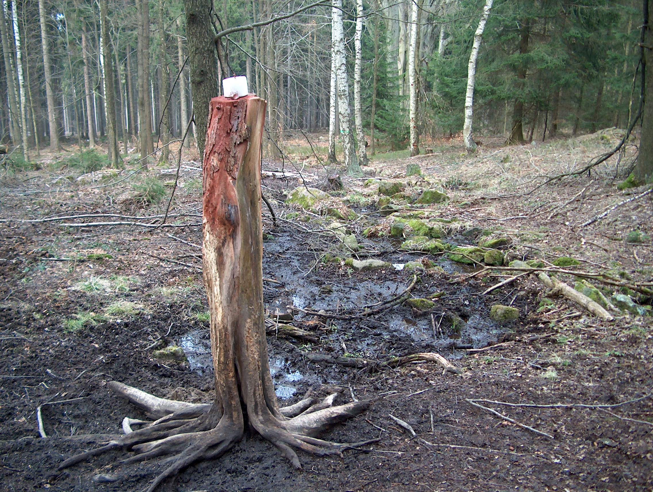 Source of River Schwarzwasser